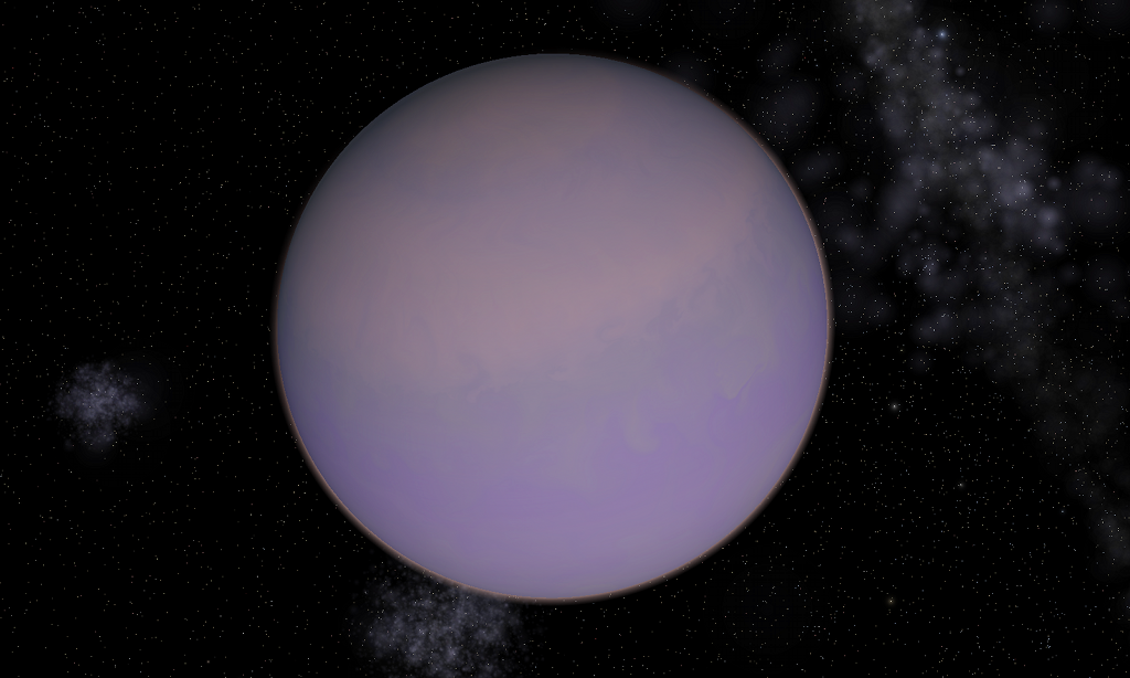 artists concept